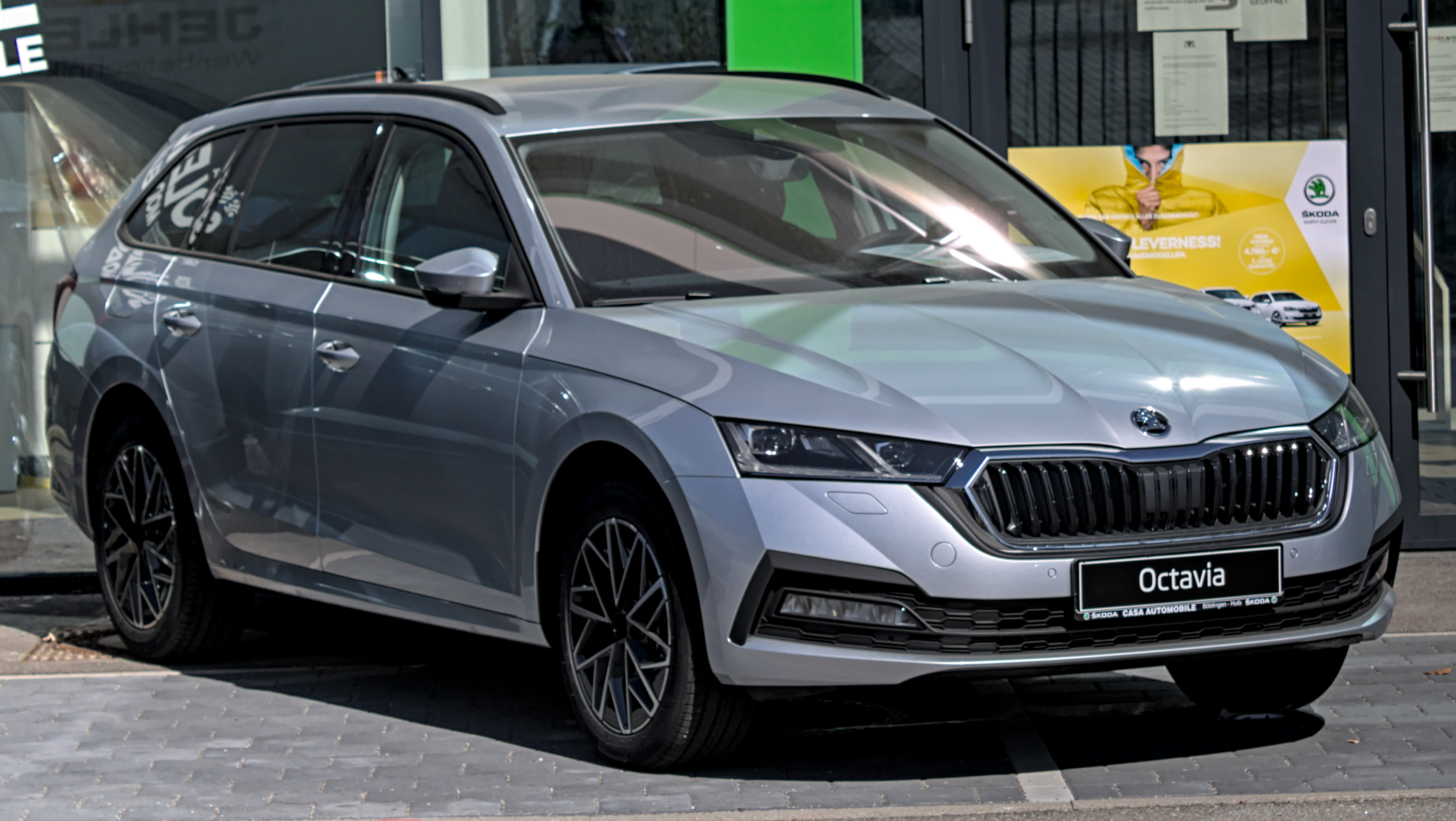 Skoda_Octavia_IV_Combi in Böblingen